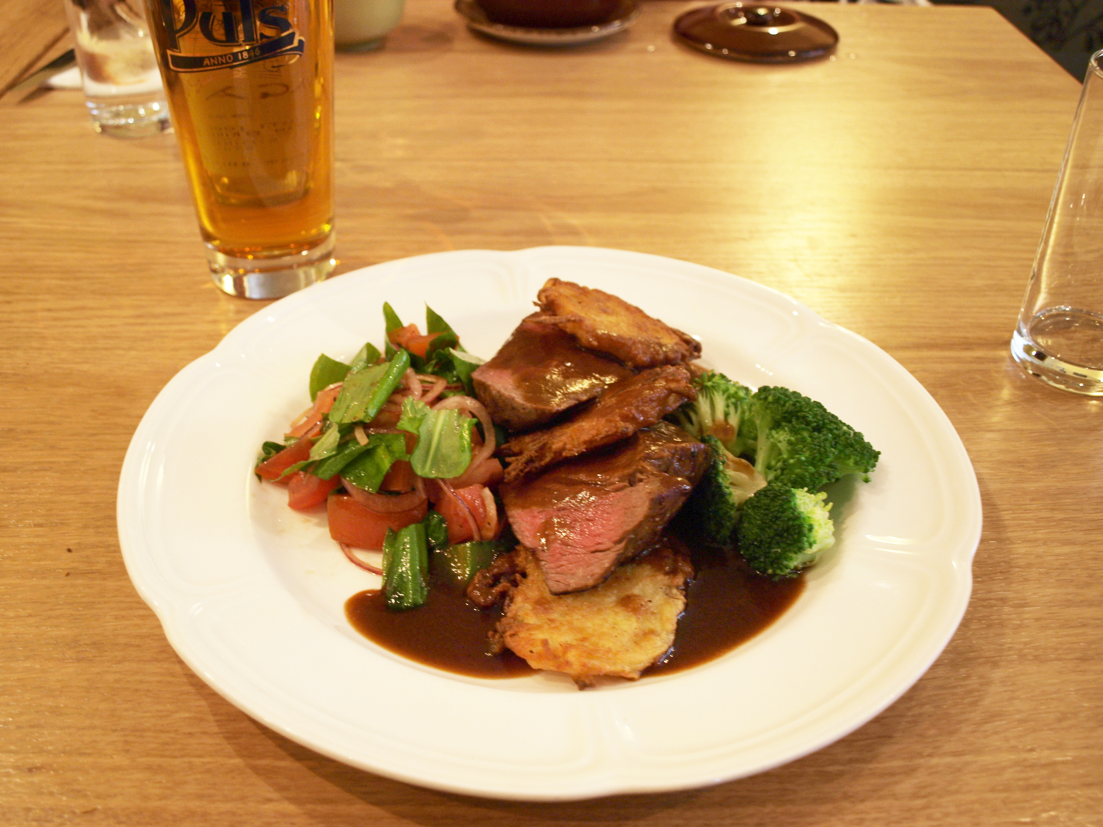 Fillet of beef in red wine sauce, accompanied with potato pancakes. The most expensive dish at restaurant Kohvik Moon, Tallinn, Estonia, at the price where prices for main dishes generally start at in decent restaurants in the capital city area in Finland. Photographed by me during a one-day excursion to Tallinn.